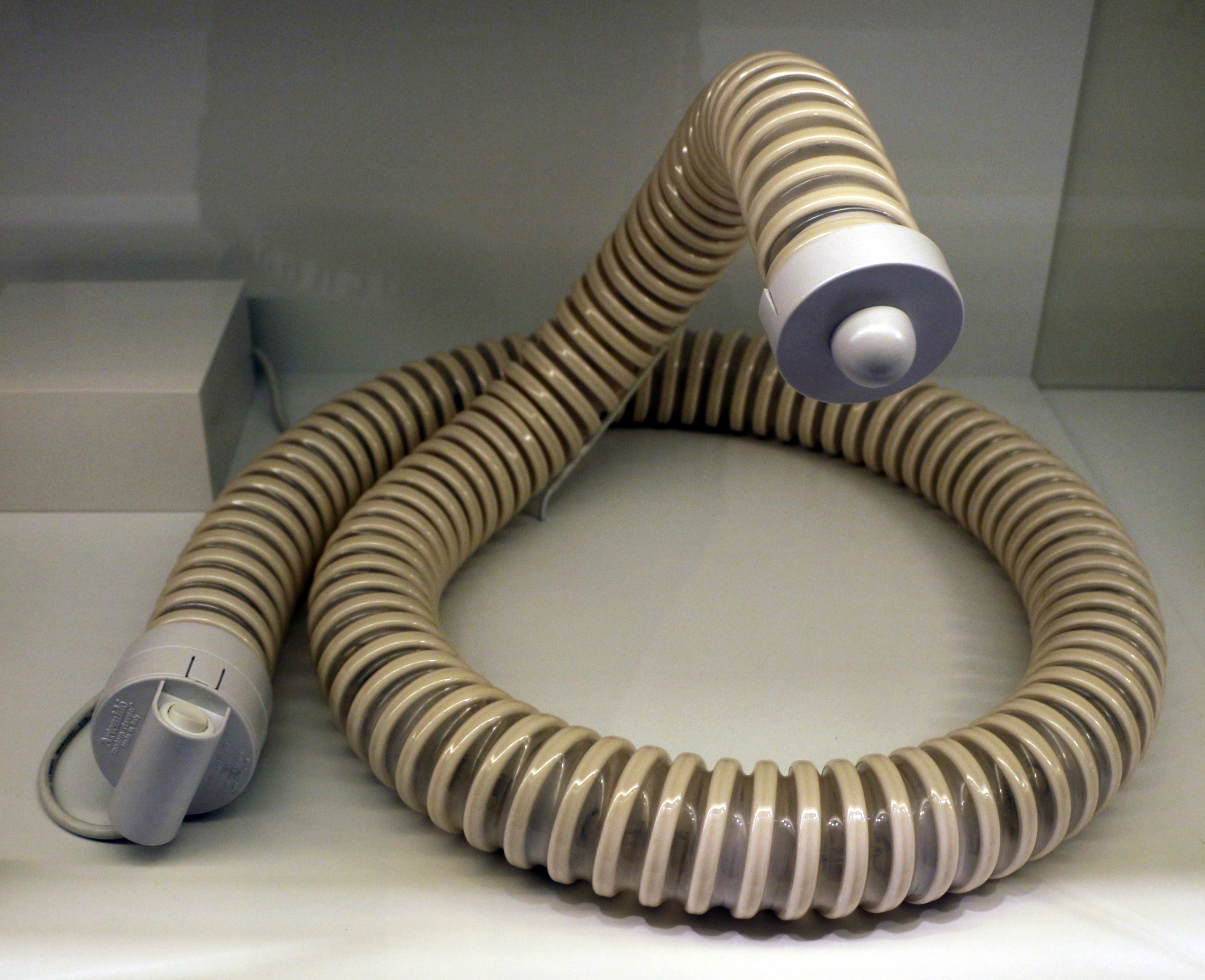 Metalware in the Indianapolis Museum of Art